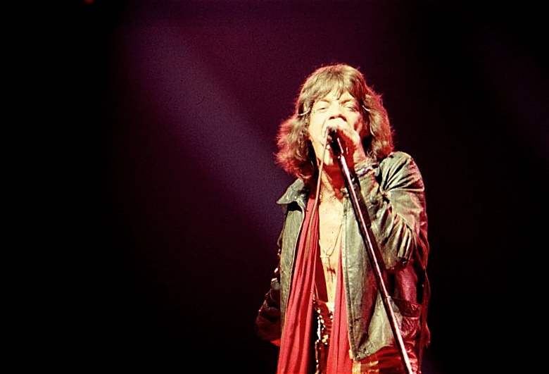 Mick Jagger of the Rolling Stones NYC show, taken with a Nikon F